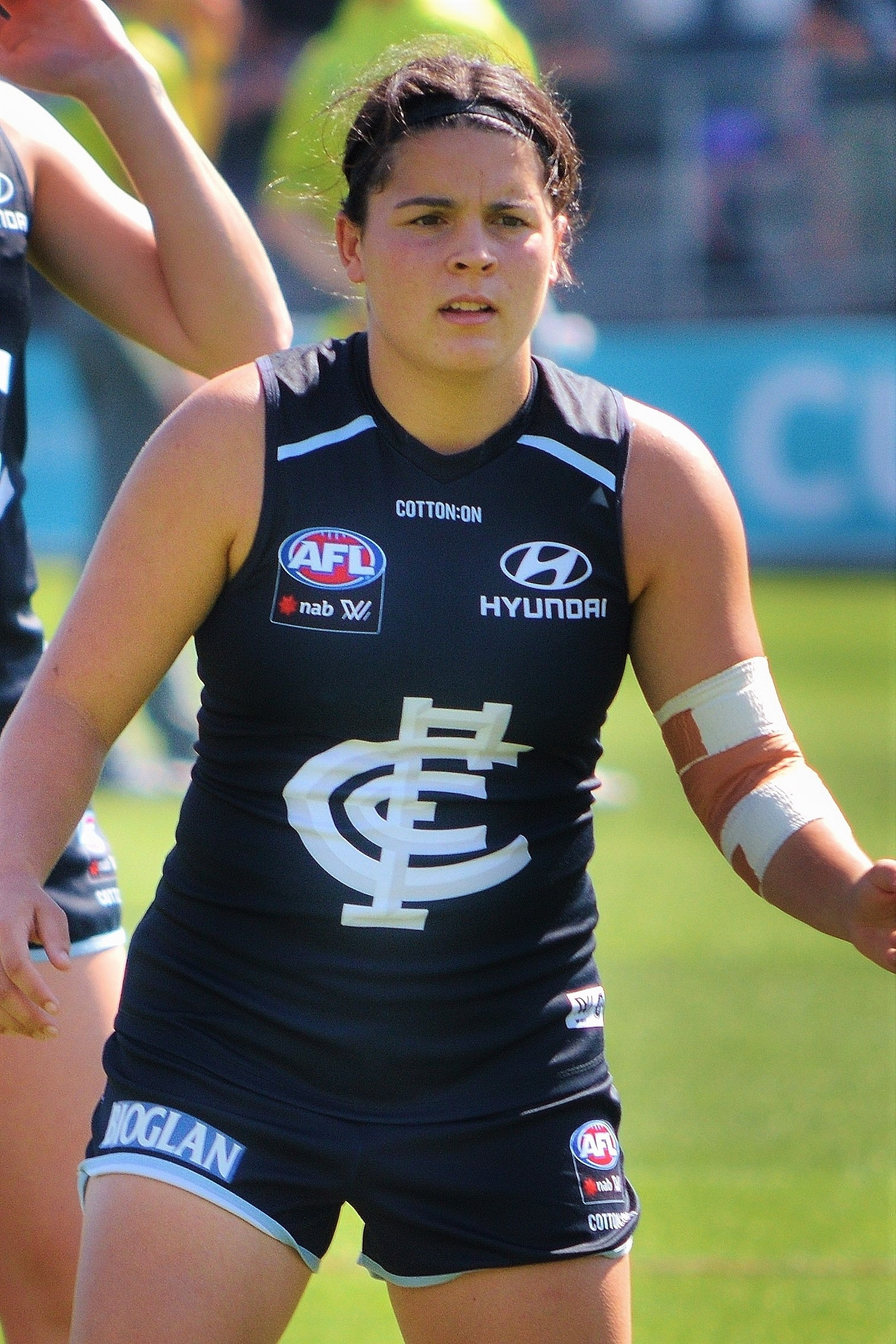 Madison Prespakis with Carlton during a preliminary final against Fremantle at Ikon Park in March 2019.